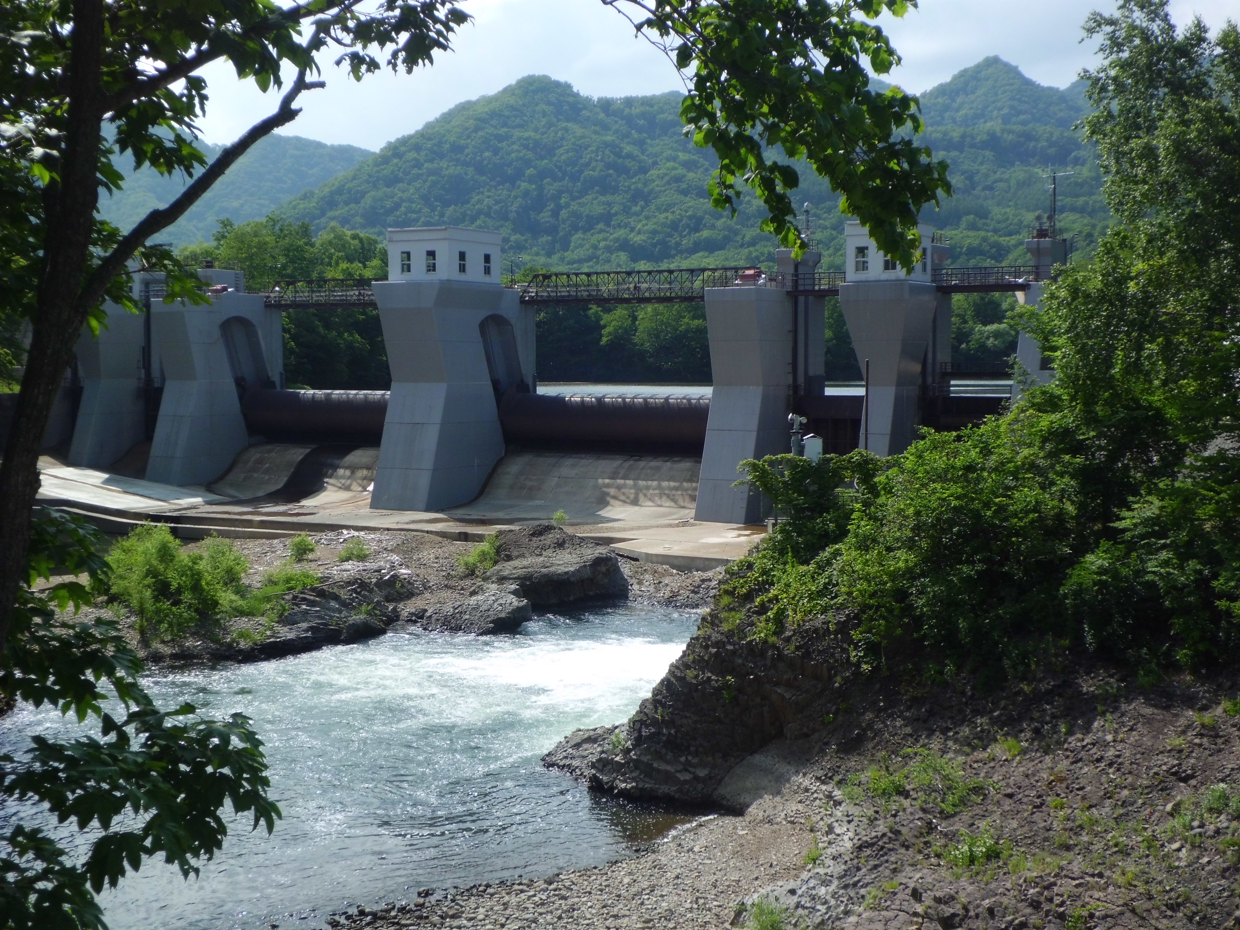 Moiwa Dam